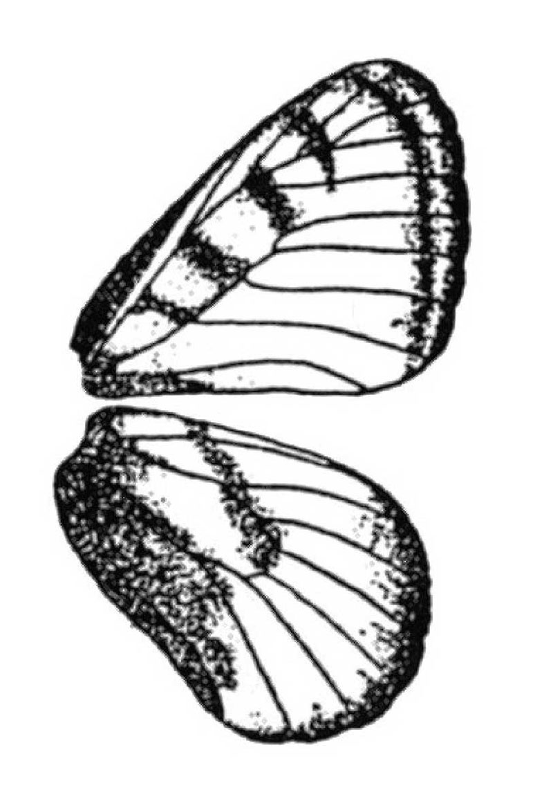 Doritites bosniackii